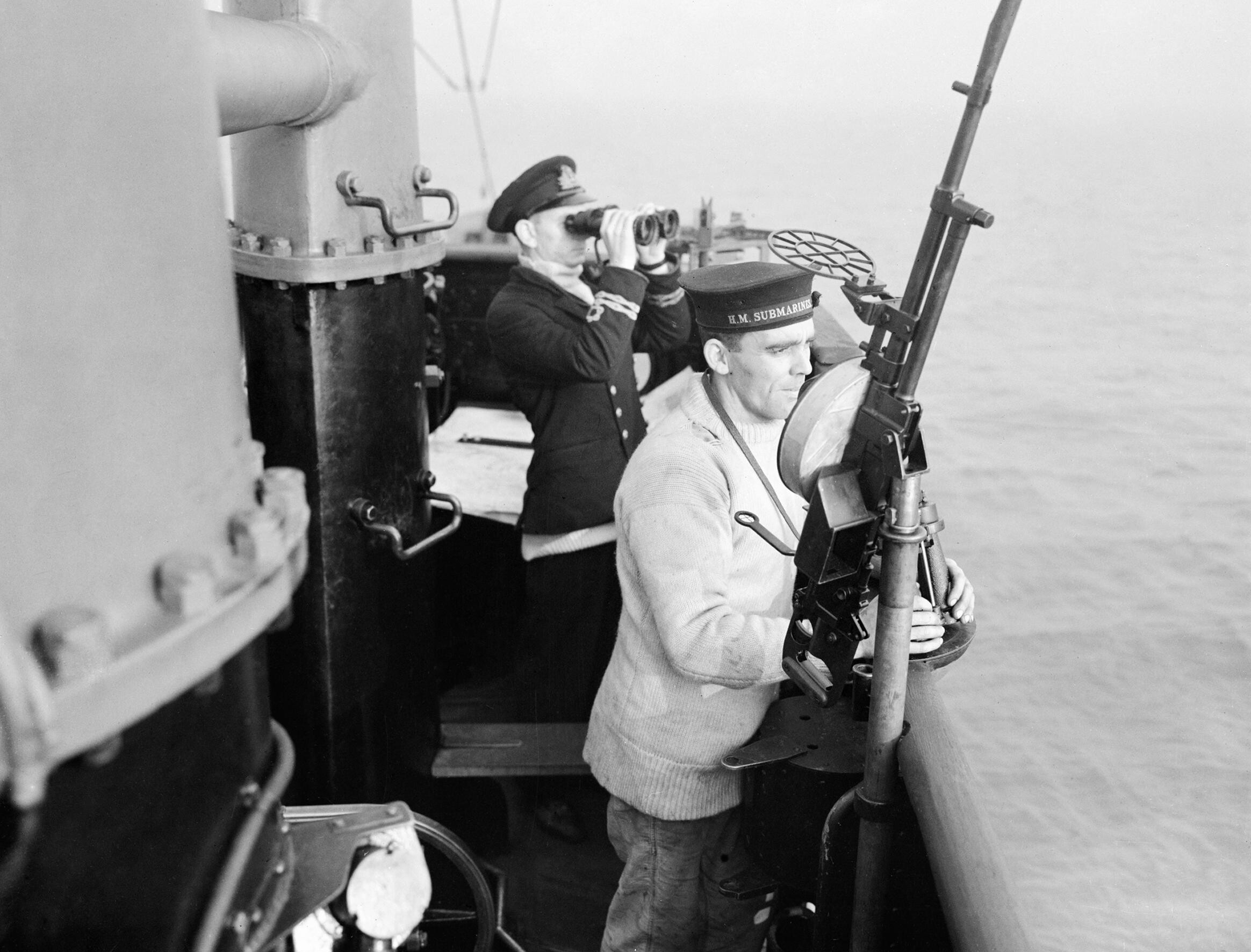 Gunnery Trials of Hm Submarine Sunfish, Portsmouth, 4 November 1943. On board HMS SUNFISH a submarine gunner is on the bridge beside his Vickers gun. He is Able Seaman A B Campion of 34 Church Road, Gosport, Portsmouth who in his 16 years naval career has served in most types of naval craft.